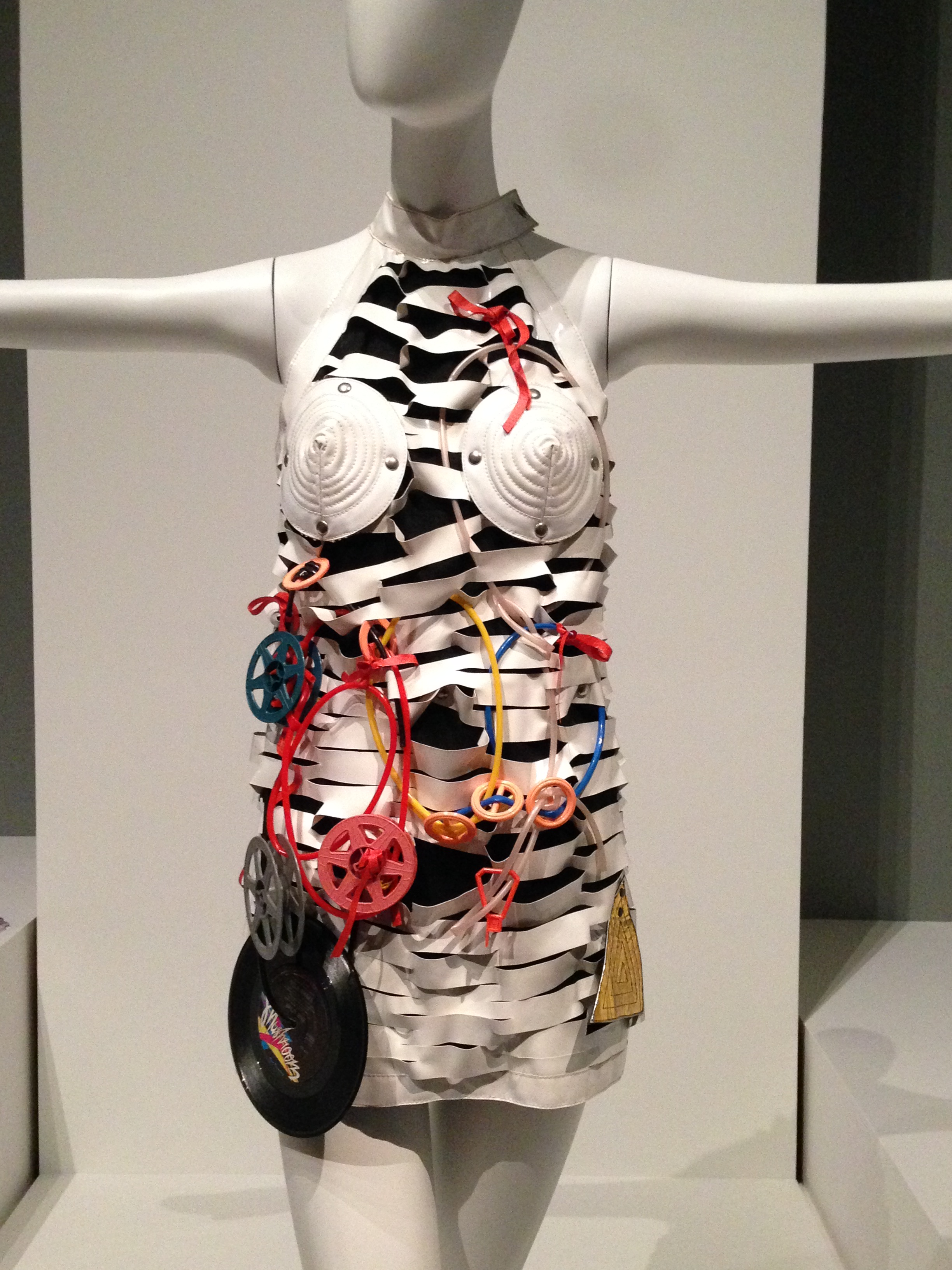 Je sius mod delux - dress by the Melbourne fashion designer Jenny Bannister